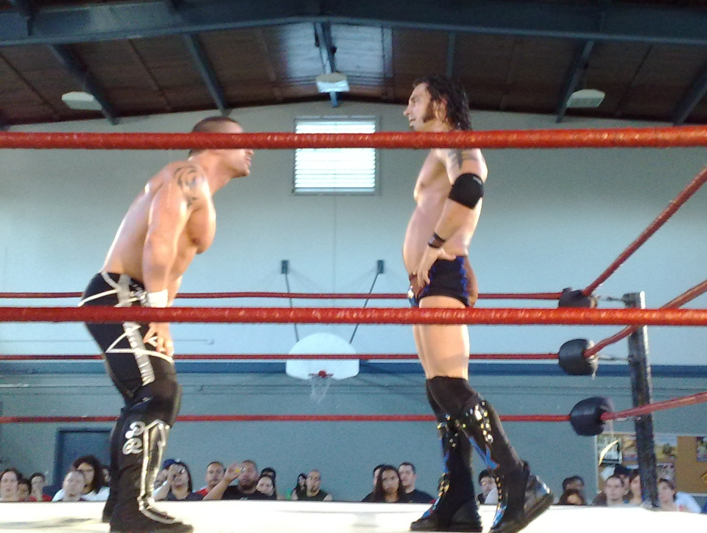 Professional wrestler Austin Aries (real name Dan Solwood) during a match with Davey Richards at Pro Wrestling Guerrilla's DDT4 Night 2 show on May 18, 2008.